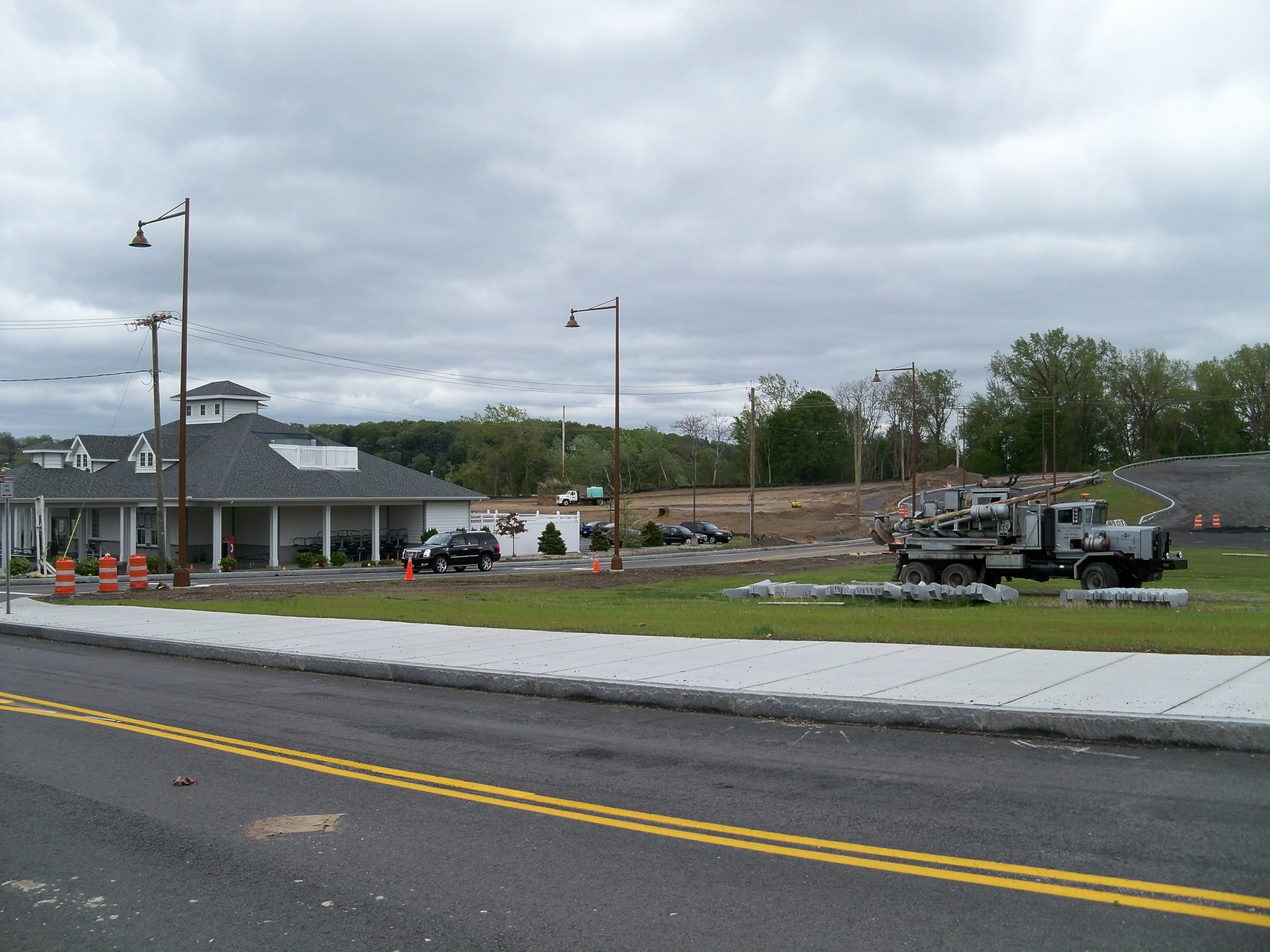 The completed new alignment of Sea Breeze Drive (former New York State Route 590) in May 2010. In the background is what was once the pre-Sea Breeze Drive alignment of NY 590; in the foreground is Culver Road.